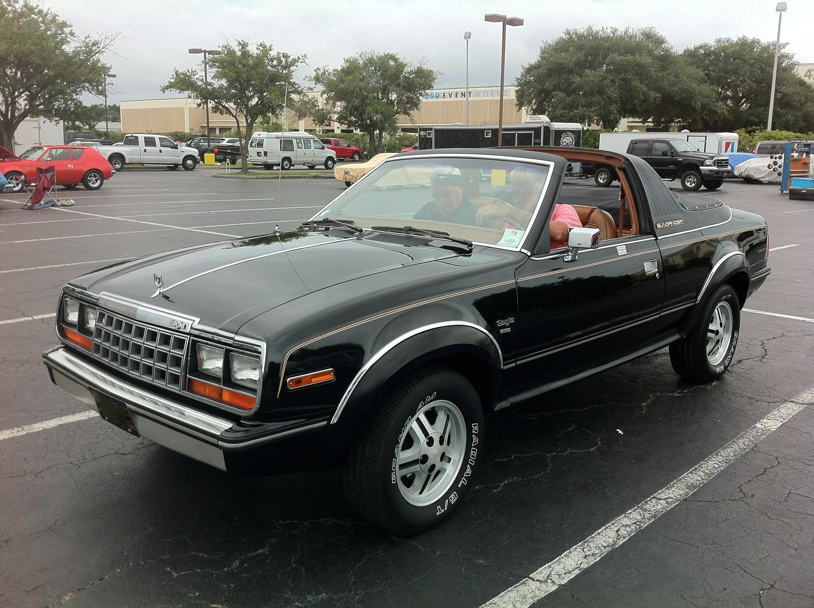 1981 AMC Eagle Sundancer 4WD convertible. An innovative luxury SUV manufactured by American Motors Corporation (AMC) in conjunction with the Griffith Company. Photographed at the 2014 American Motors Owners (AMO) convention that was held in North Charleston, North Carolina, USA.